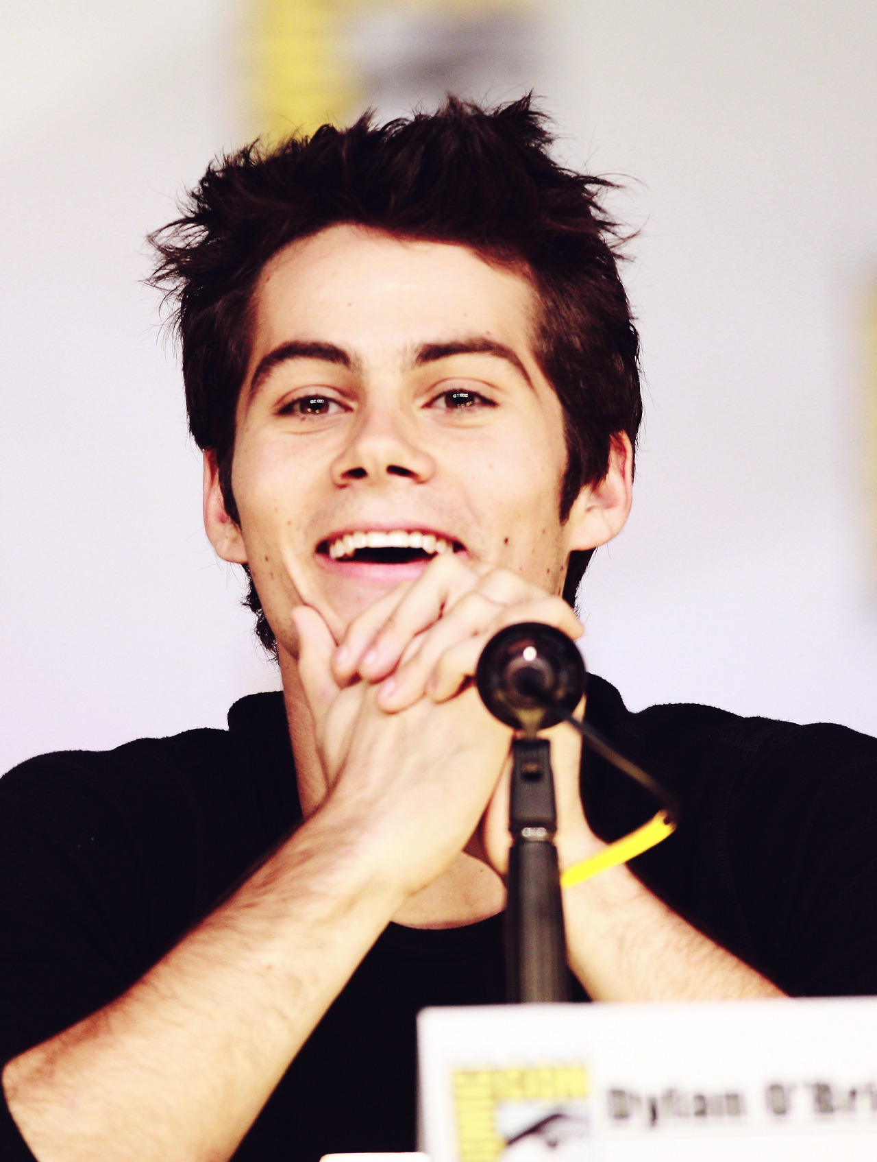 Dylan O'Brien at the 2013 San Diego Comic Con International in San Diego, California.